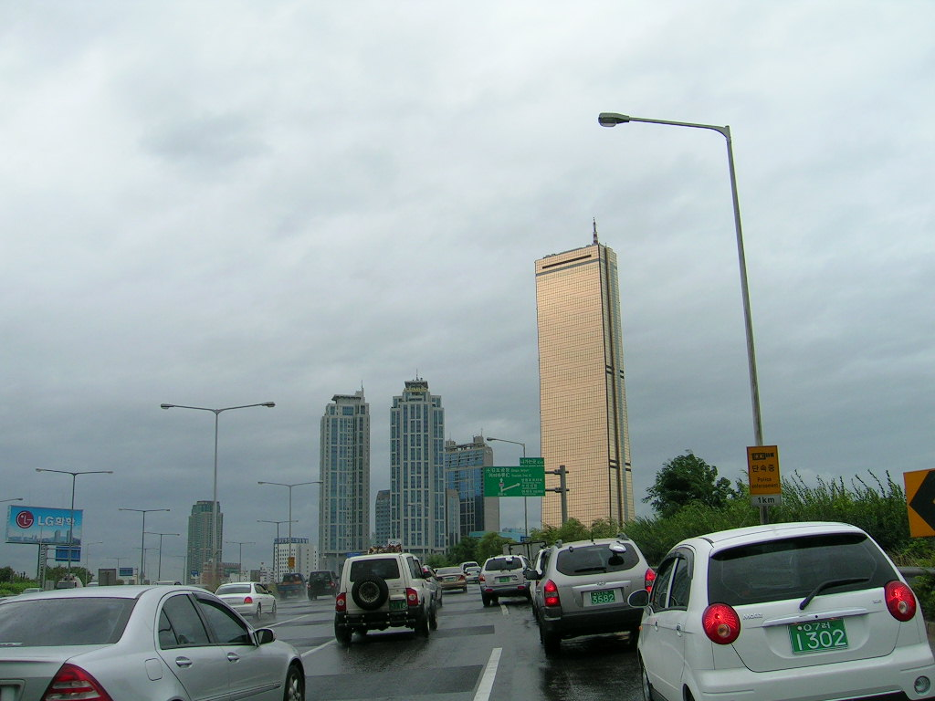 Yeouido, Seoul, South Korea